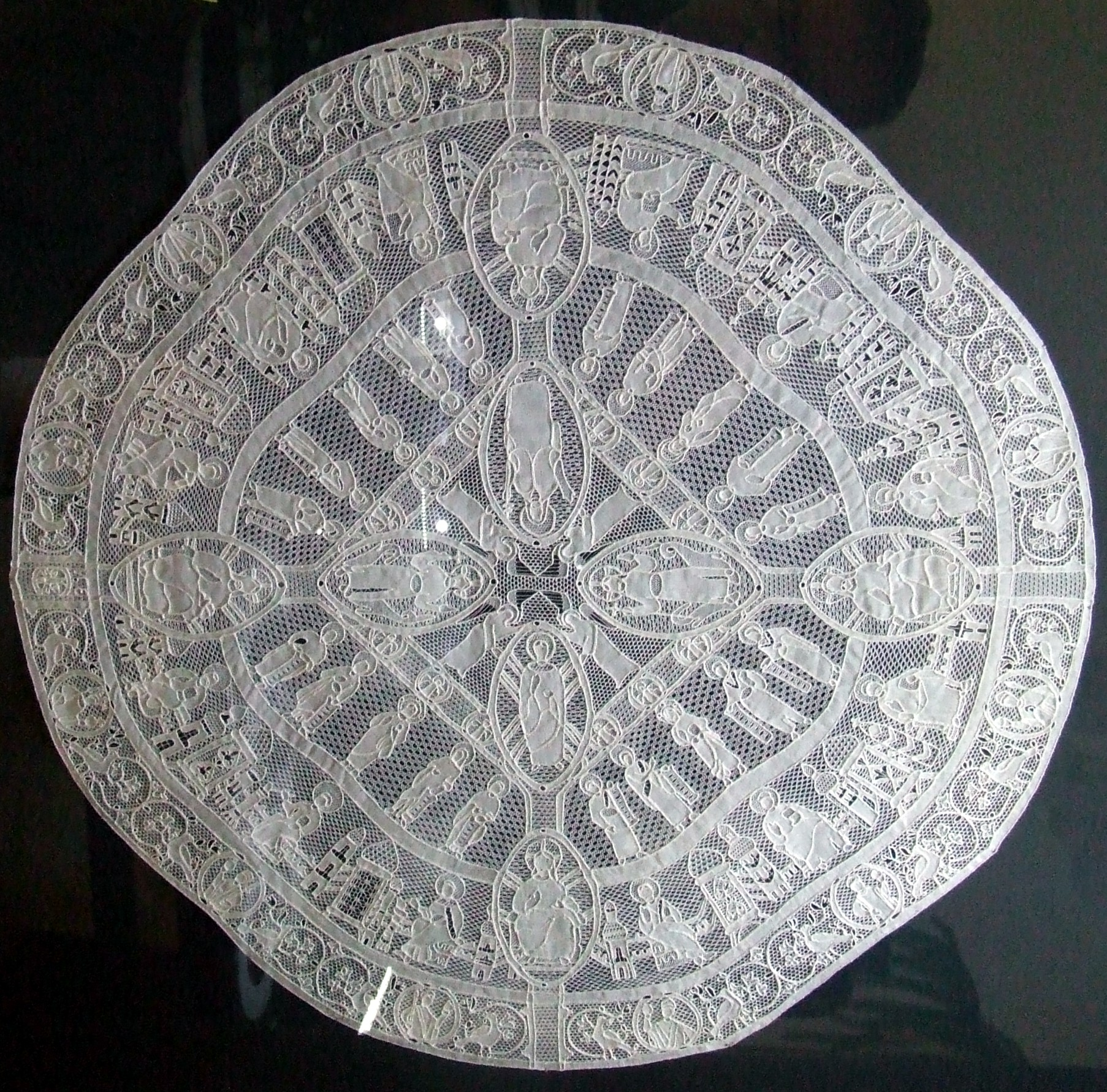 Coronation robe